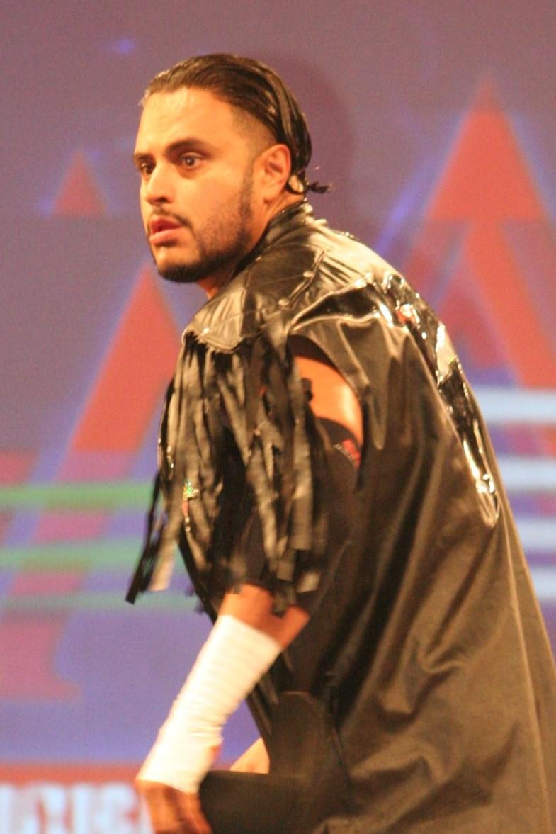 Texano Jr at Bound for Glory in November 2017.